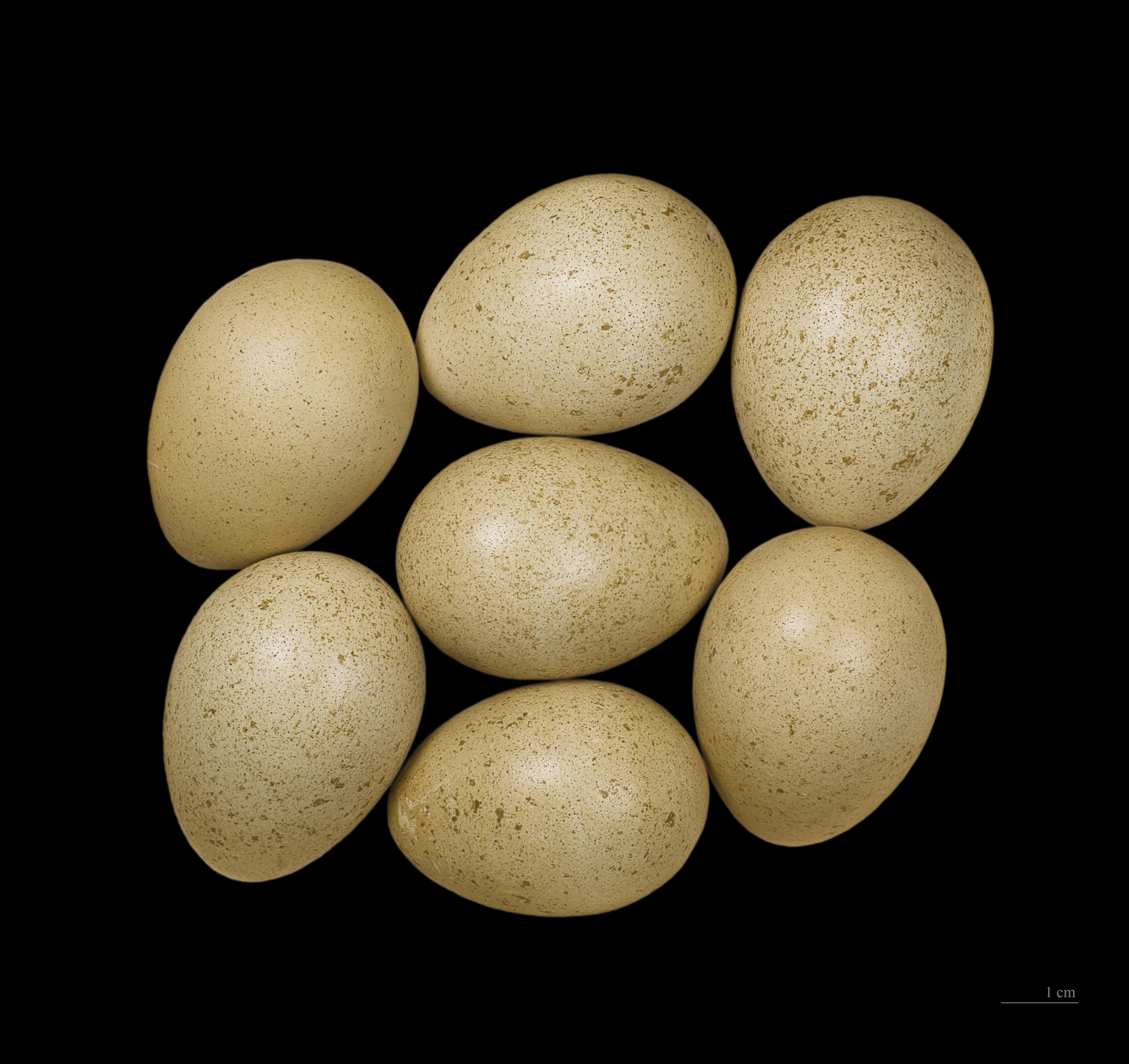 Egg of Barbary Partridge. Collection of Henri Heim de Balsac / Jacques Perrin de Brichambaut. Locality: Massad, Algeria.